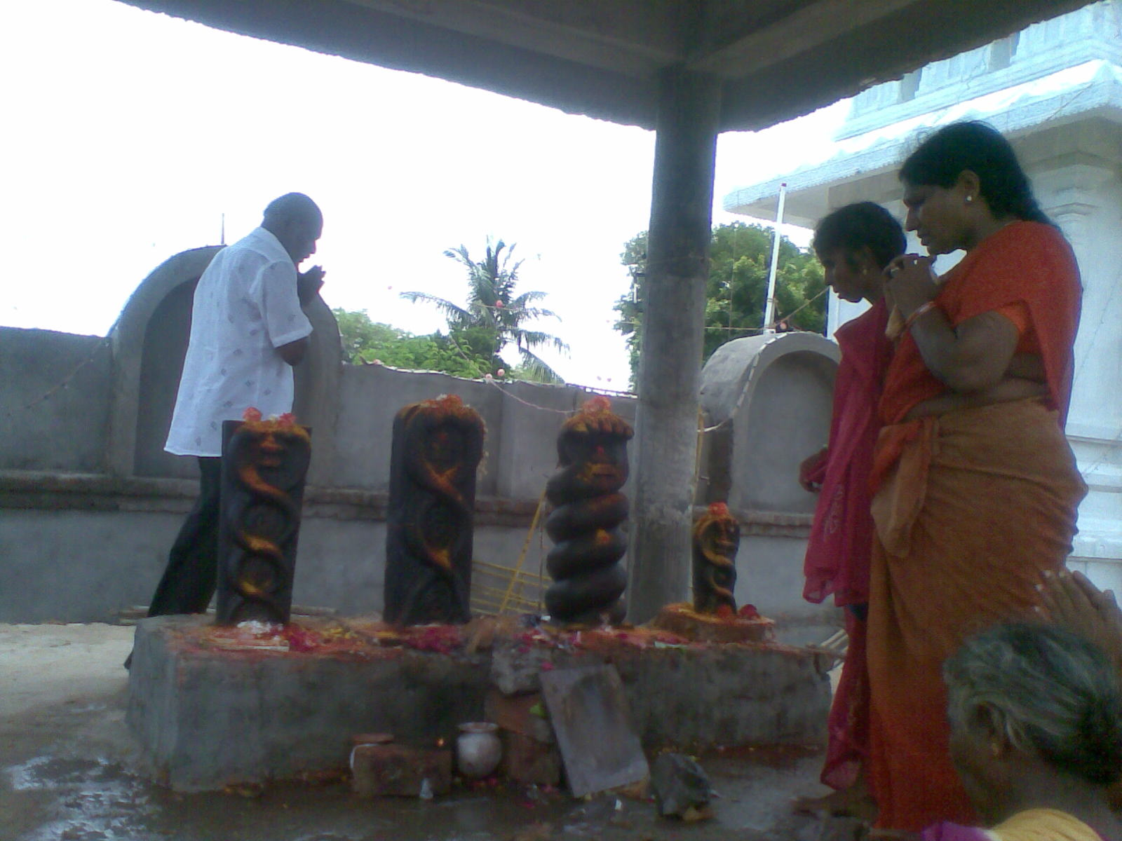 Lord of Naga